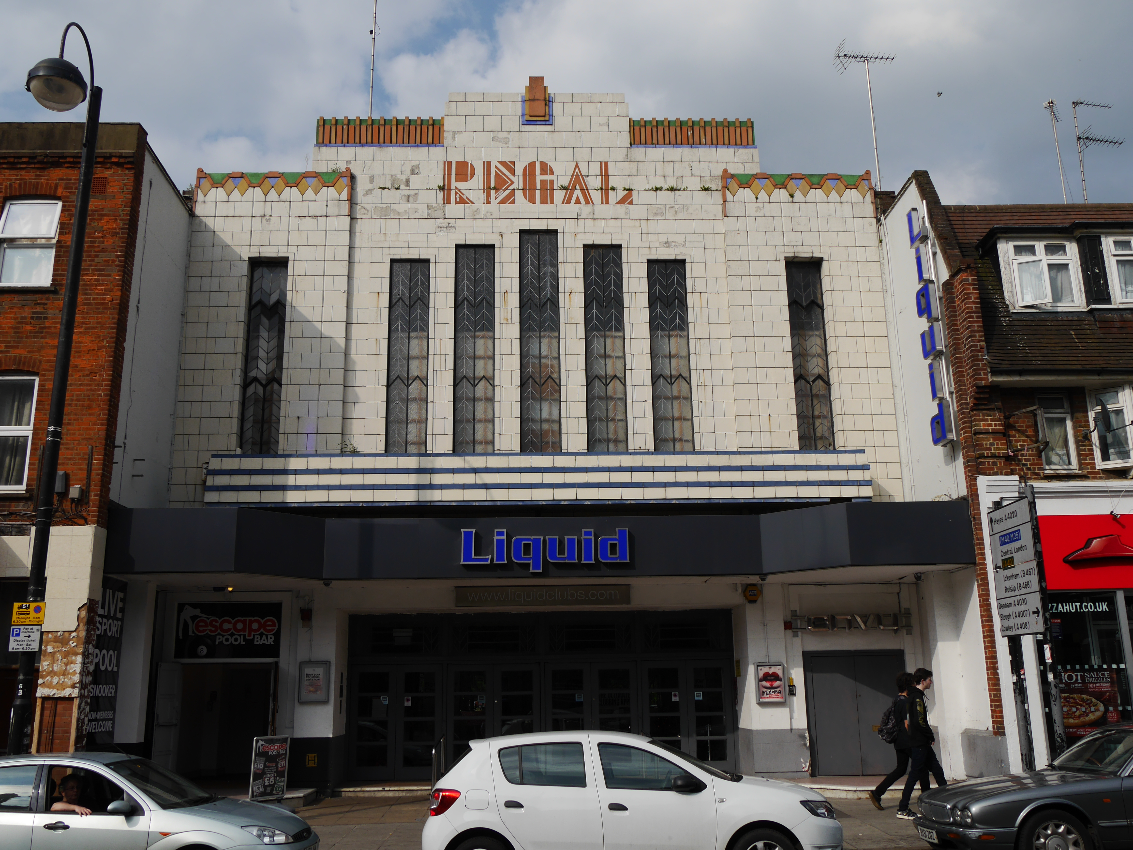 Regal Cinema, Uxbridge, May 2015